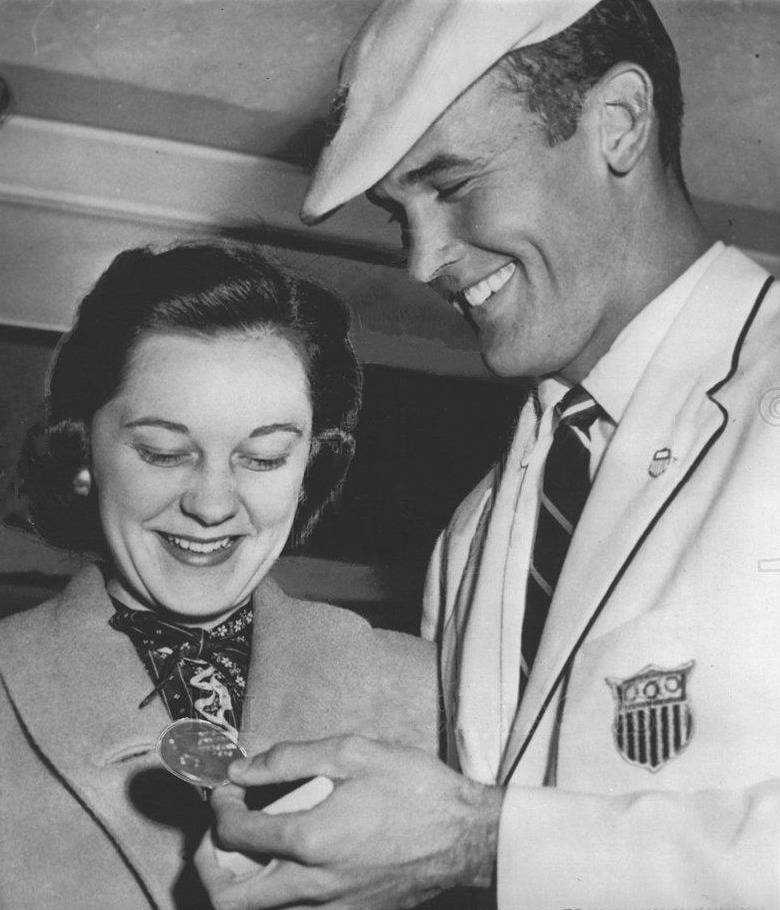 1956 Press Photo Bobby Morrow - dfpb13119